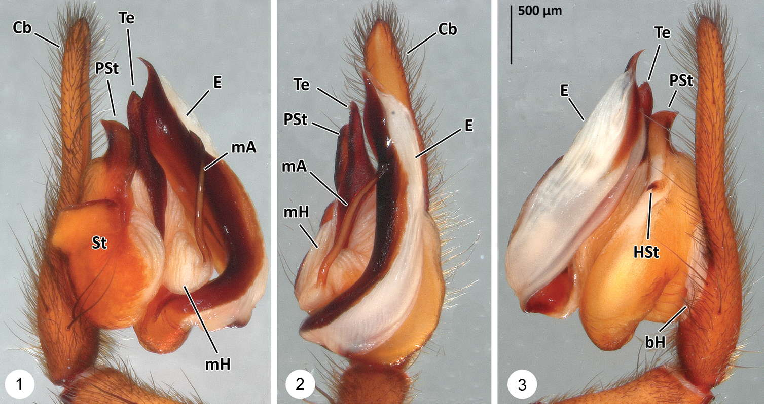 Left male palp of a male of Thaida chepu (Araneomorphae: Austrochilidae) from a wet lowland mixed forest at Lago Huillinco (Chiloé, Chile). Extended focal plane images of male palp in prolateral (1), ventral (2) and retrolateral (3) view. Key: bH – basal hematodocha Cb – cymbium E – embolus HSt – hook of subtegulum mA – median apophysis mH – median hematodocha PSt – process of subtegulum St – subtegulum Te – tegulum